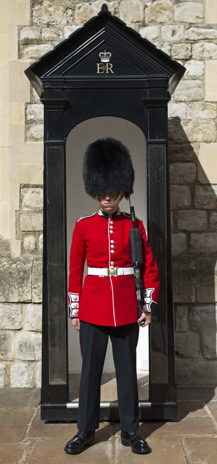 Scots Guard at Tower of London